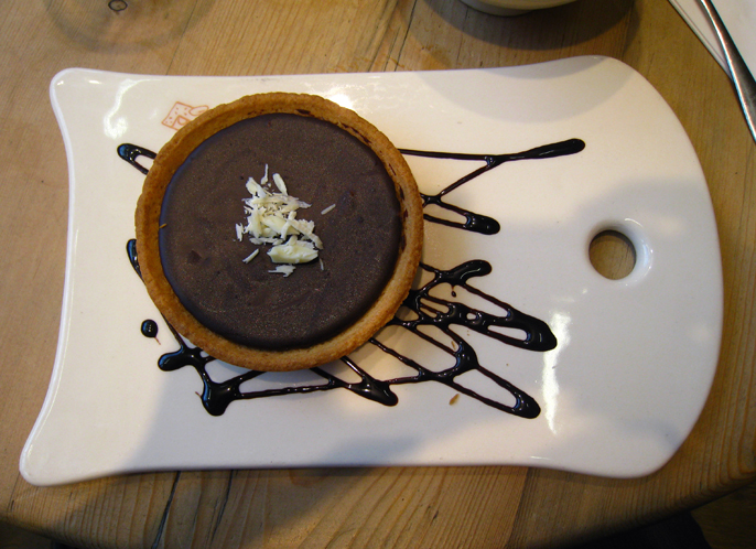 Espresso chocolate tart with chocolate sauce from Le Pain Quotidien.